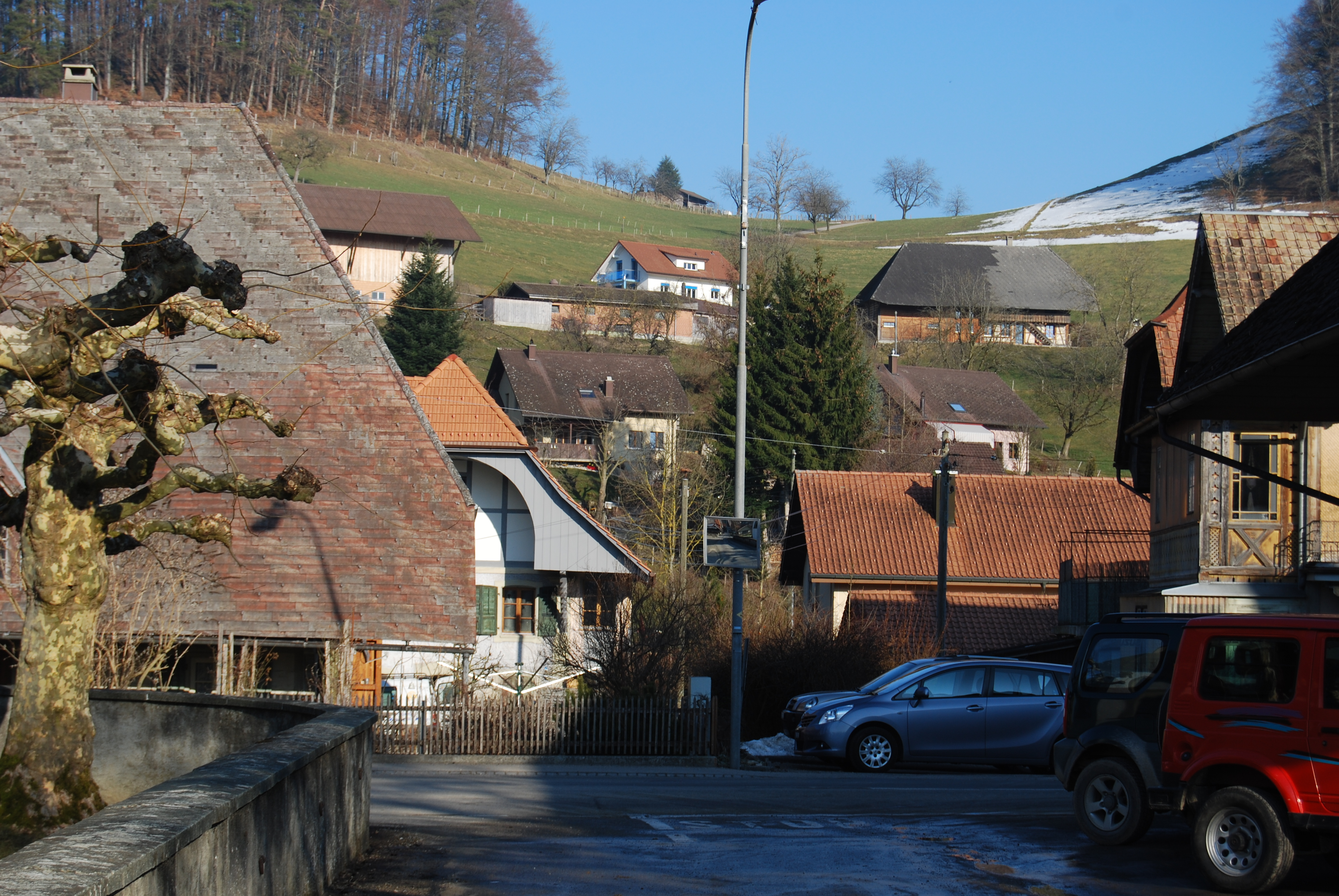 Ursenbach, canton of Bern, SwitzerlandEsperanto: Ursenbach, Kantono Berno, Svislando